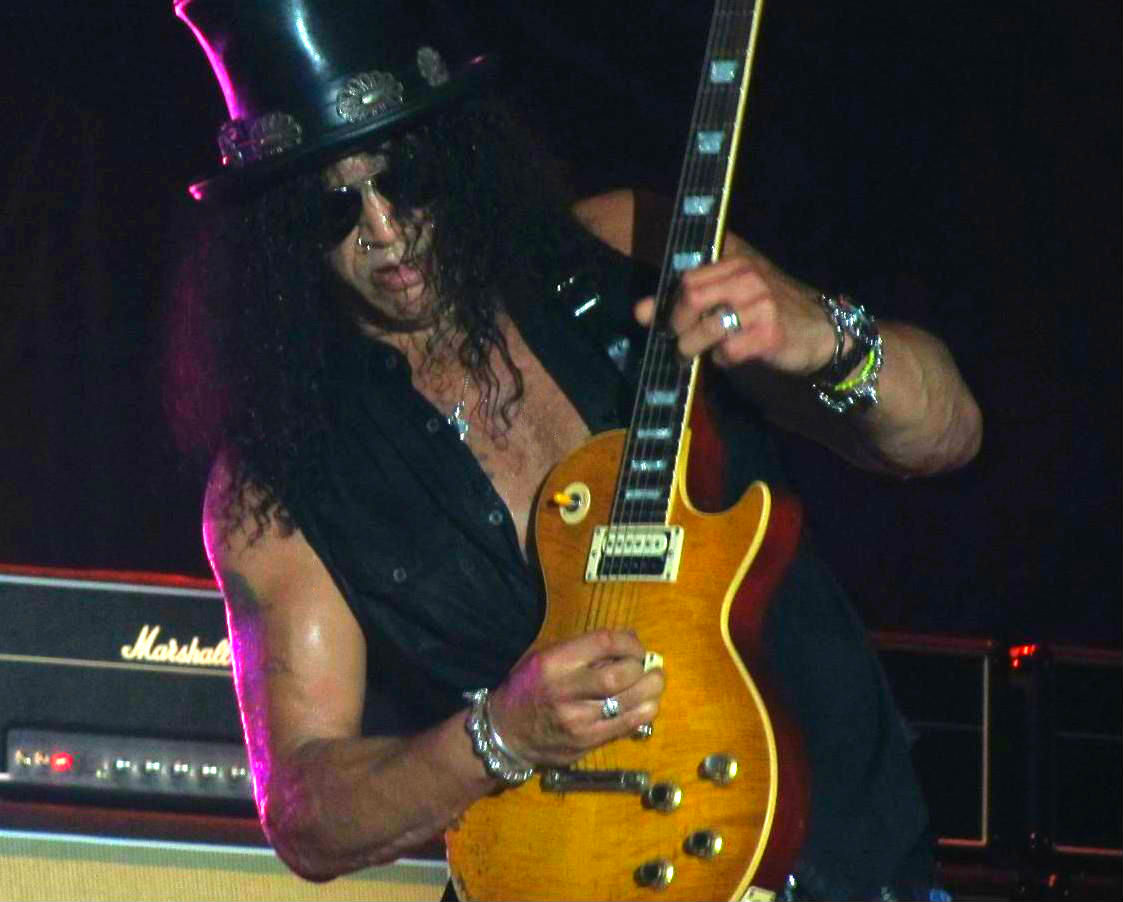 Slash live in Rome by Paride